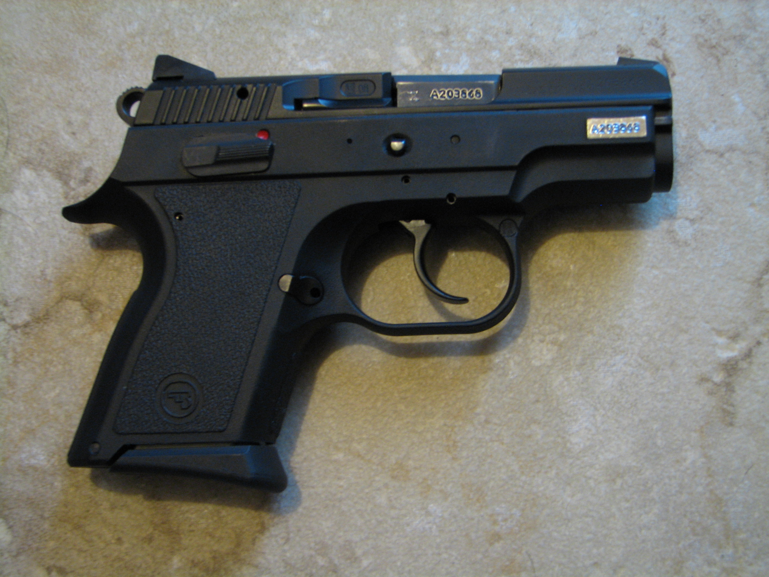 A CZ RAMI 2075 (p) owned by User:DigitalNinja.